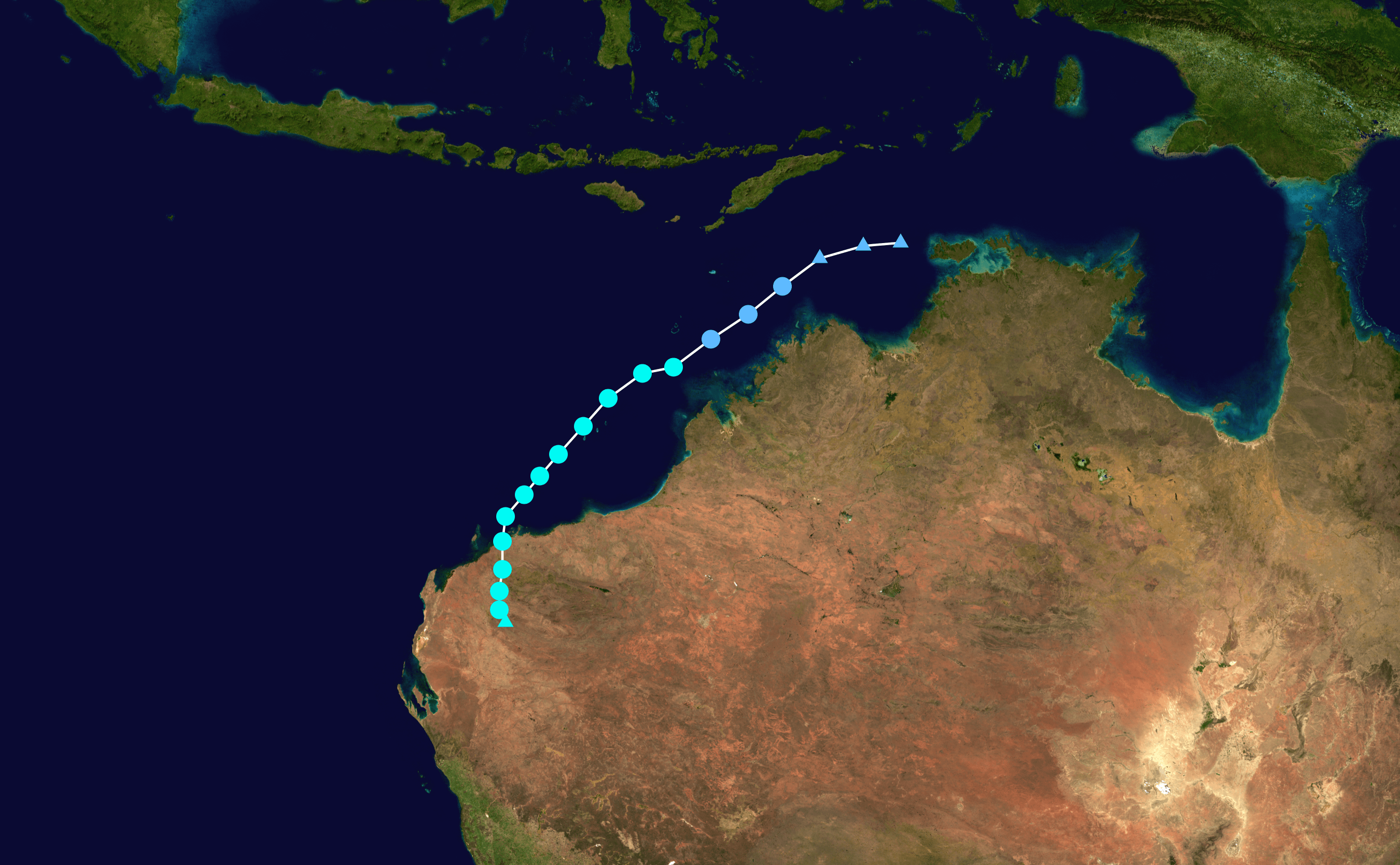 Cyclone Clare (2006) track. Uses the color scheme from the Saffir-Simpson Hurricane Scale.